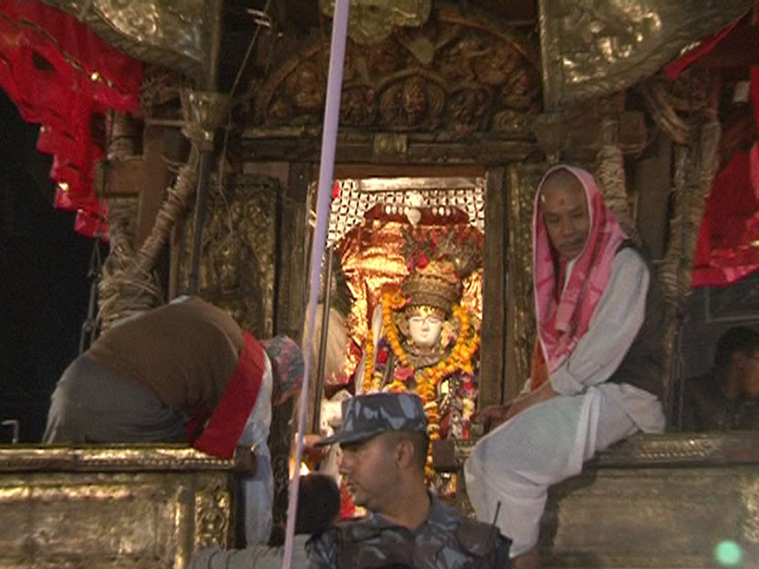 Cart of seto Machchhindra naath.